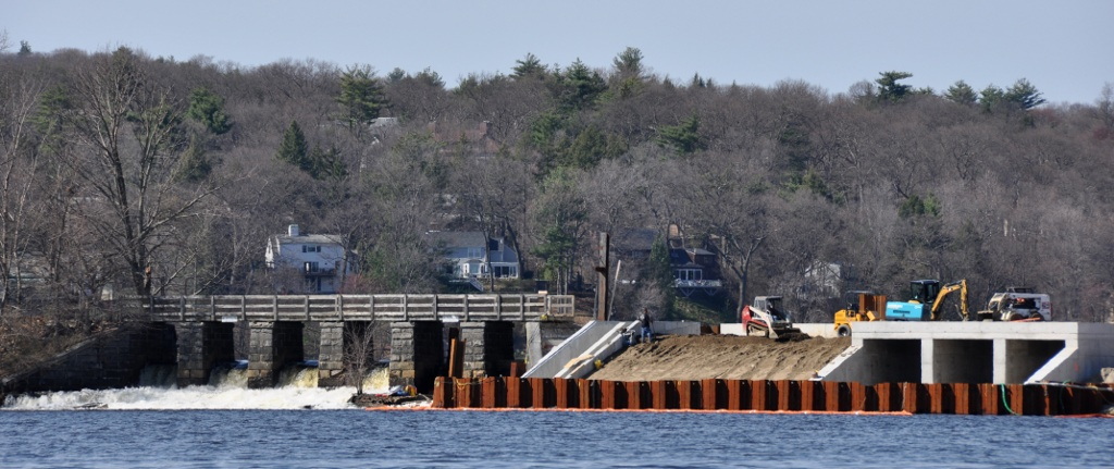 A photograph of the historic Mystic Dam in Winchester, Massachusetts, alongside a modern spillway that is under construction.